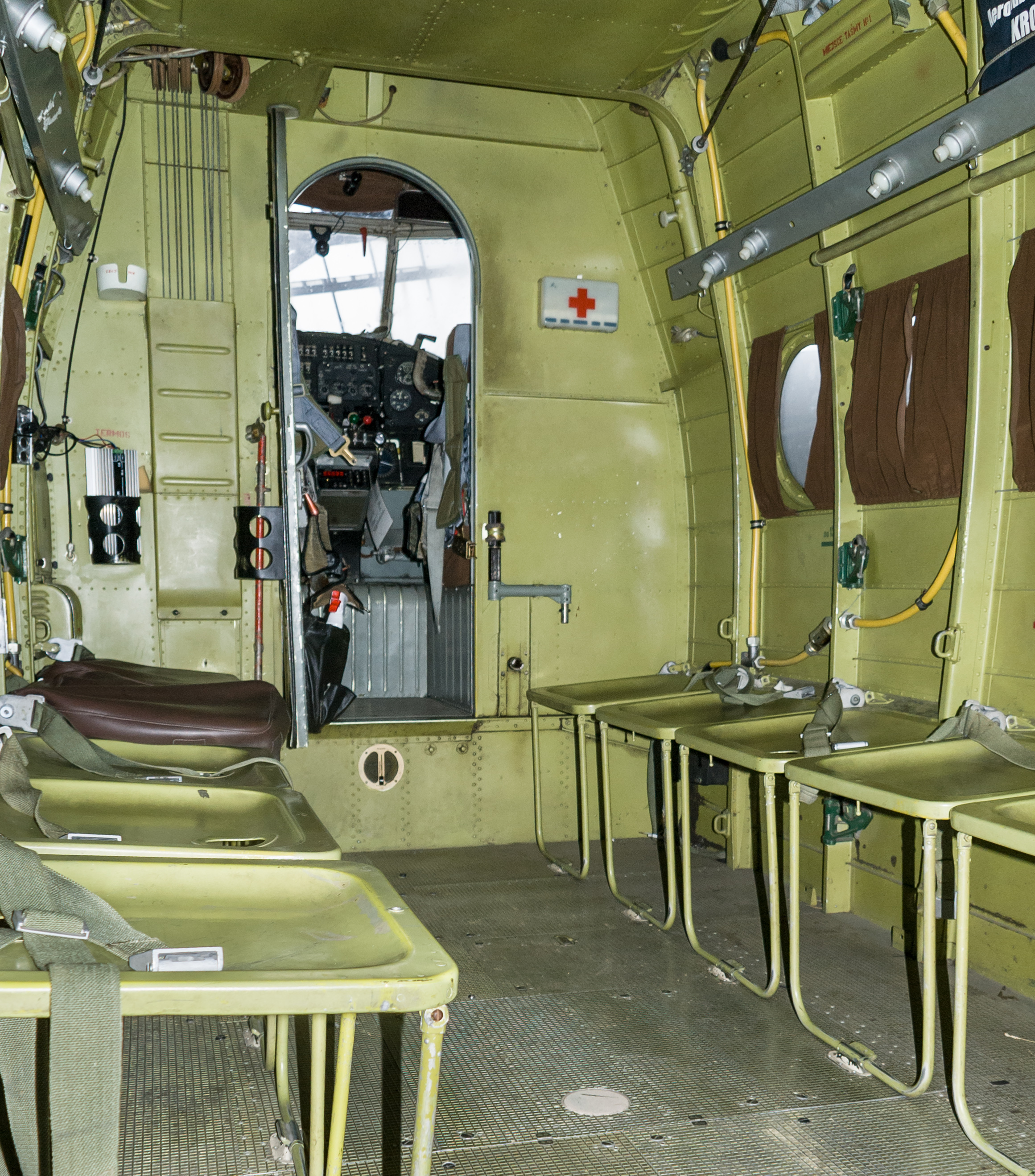 Antonov An-2 interior, Krosno Airport, Poland.